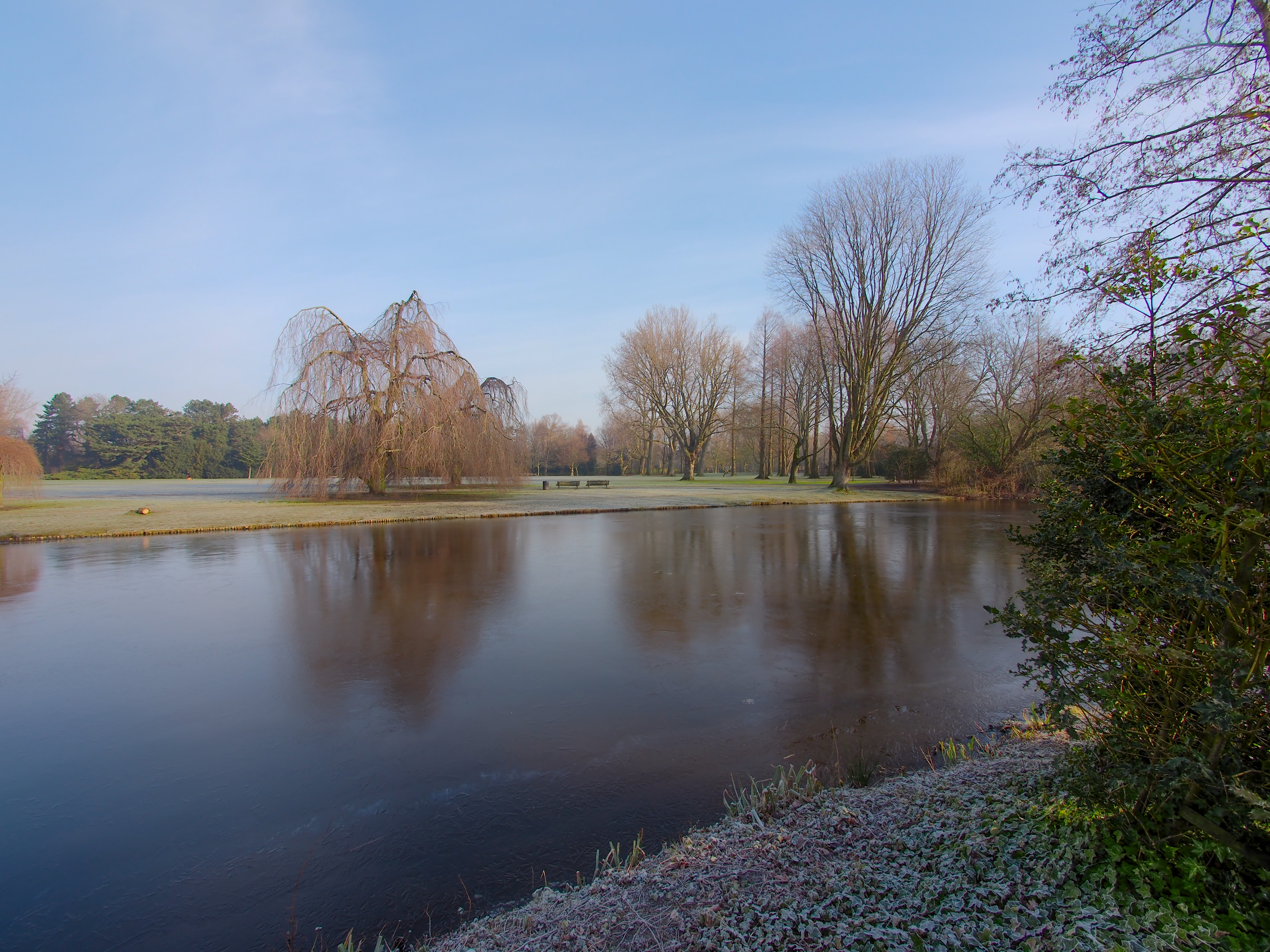 Beatrixpark.